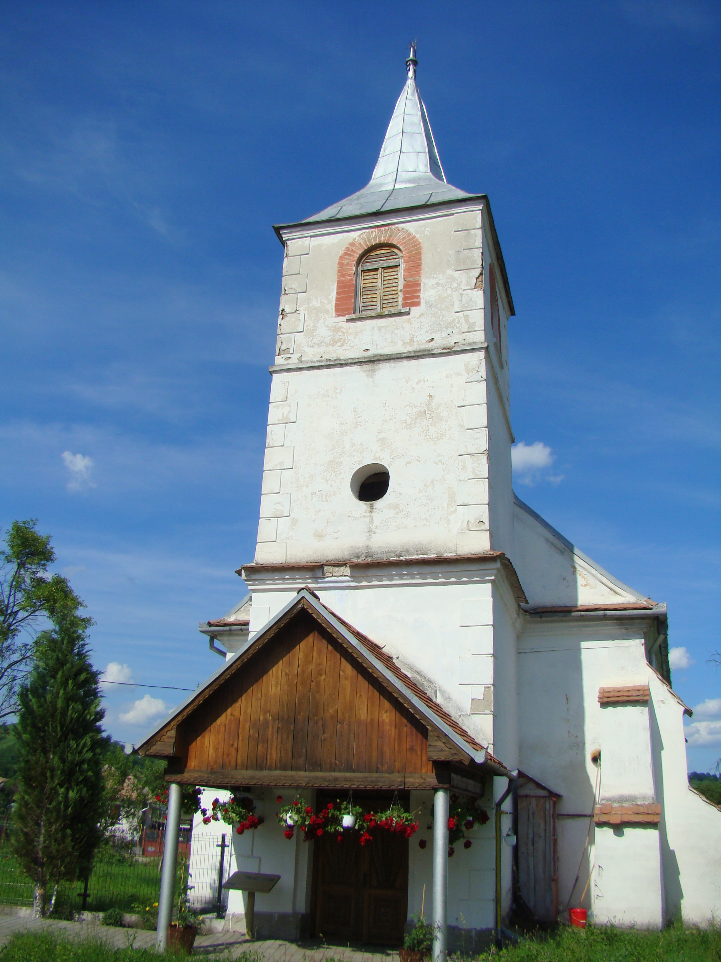 Reformed church in Alma, Sibiu county, Romania